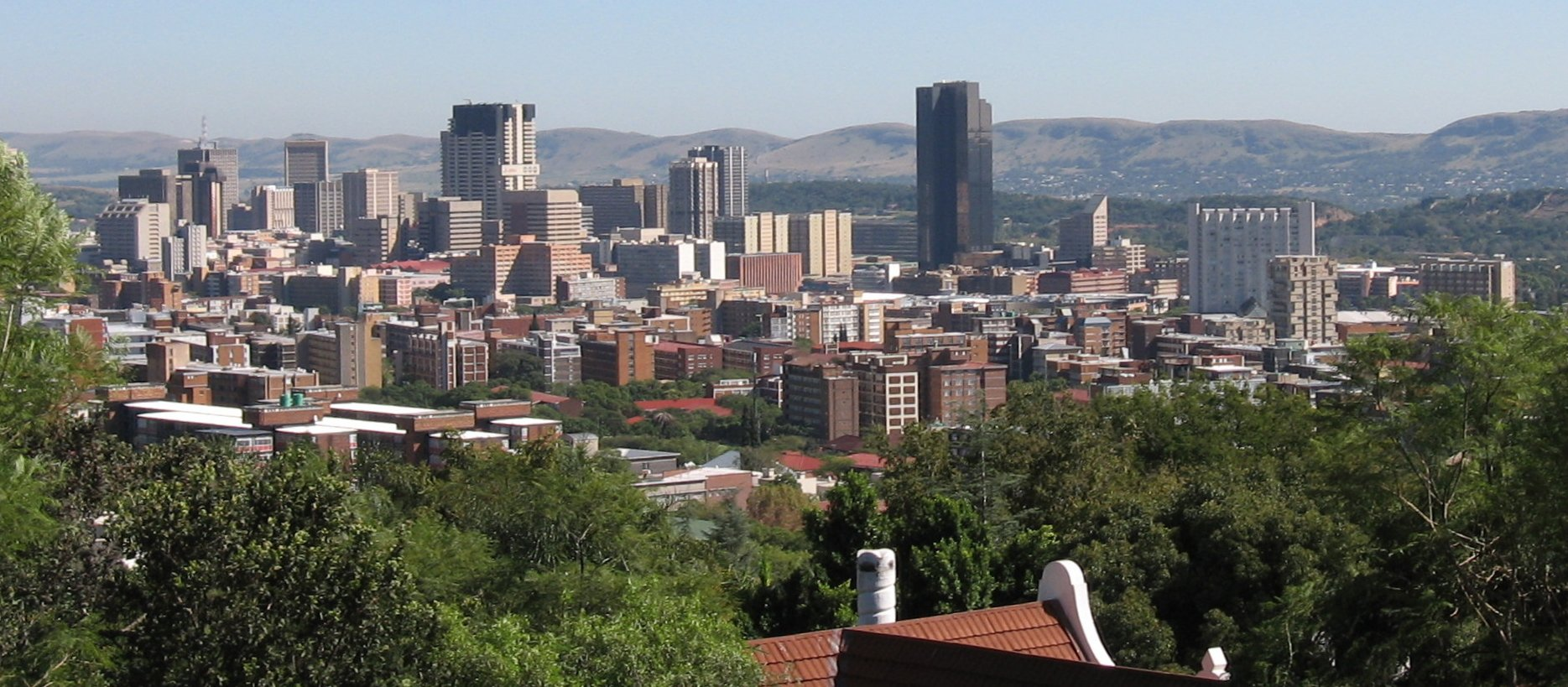 Pretoria CBD as seen from Muckleneuk Hill (Lukasrand) on 15 April 2006